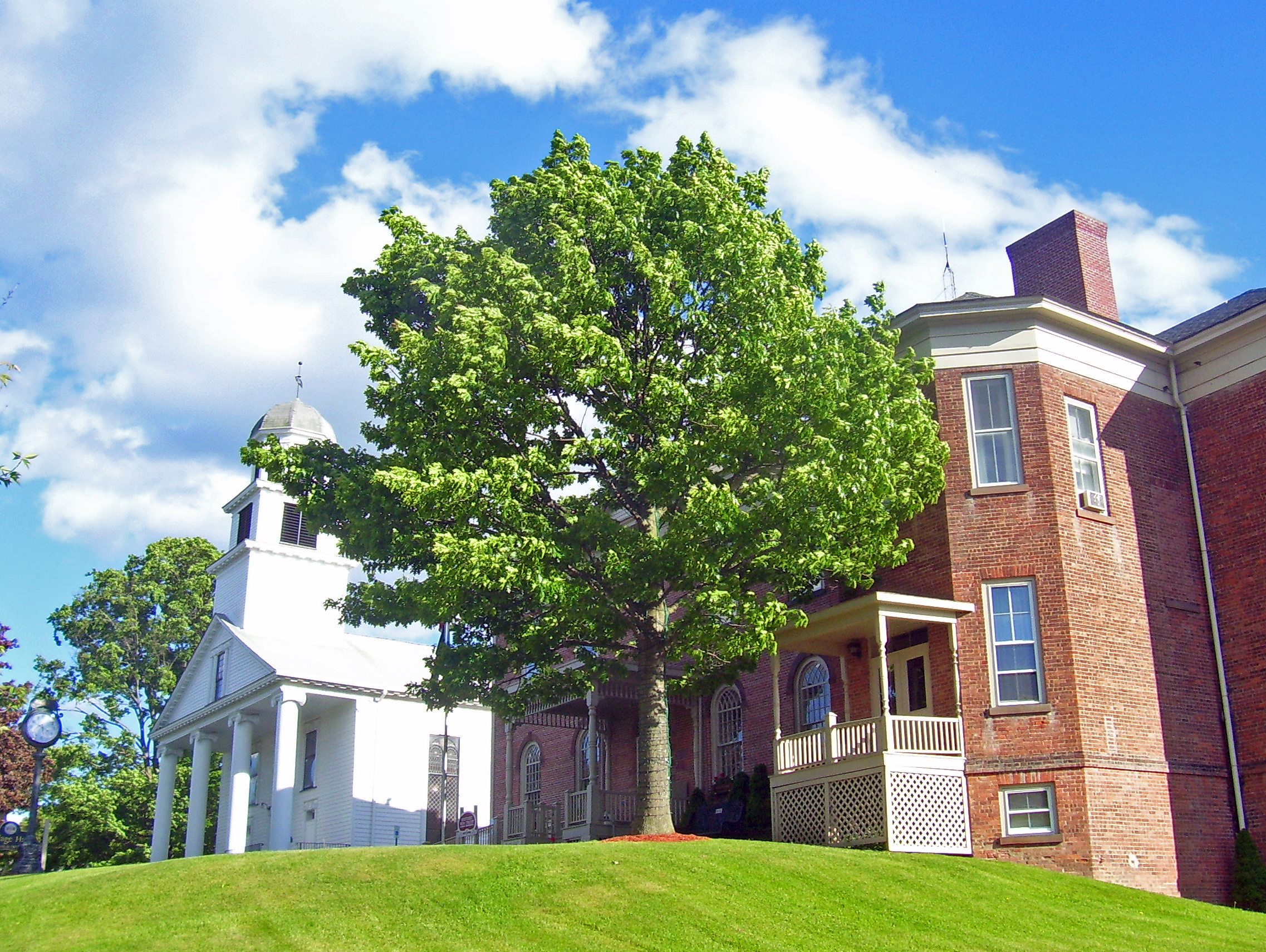 First Presbyterian Church and Village Hall (former Montgomery Academy building), Montgomery, NY, USA